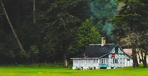 This is view of Khajjiar at Chamba in the season of Rain